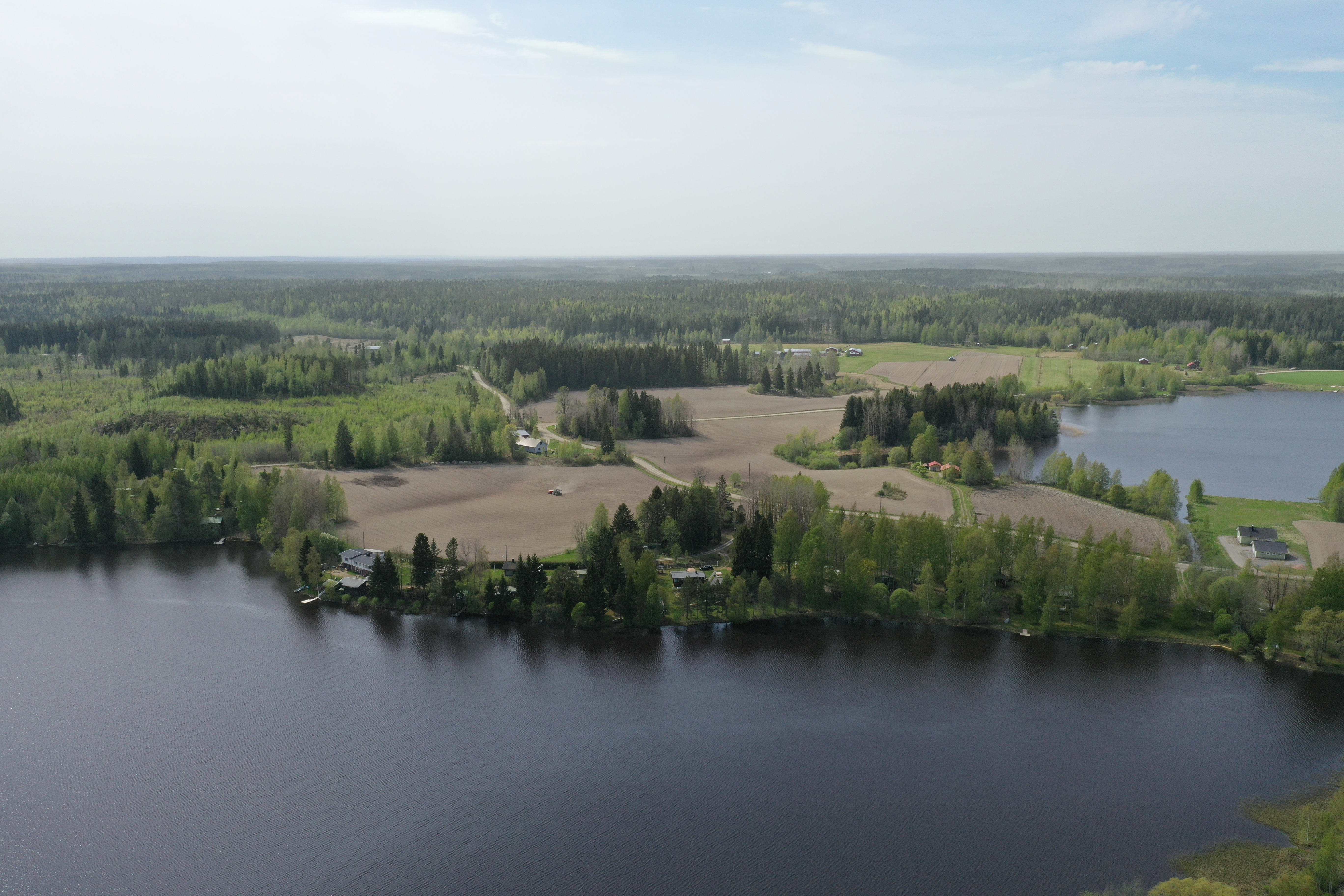 Village of Makkonen in Suodenniemi, Finland